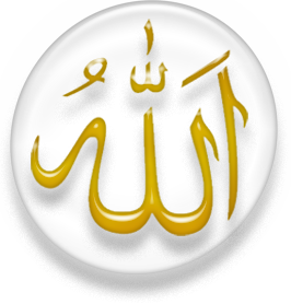 Symbol of Islam, the name of Allah, complete version, white and golden version. Note: most islamic people consider this symbol more correct to represent them. It is strongly advised to be used instead of the crescent moon with the star that is rather a political symbol.